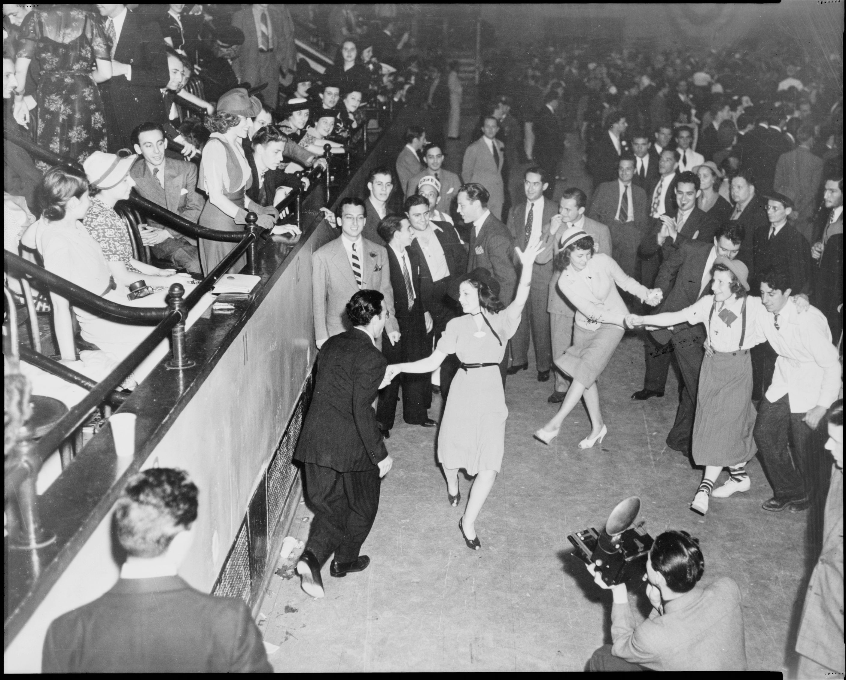 Large group, mostly men, surrounds couples jitterbug dancing on a dance floor, with a photographer in the foreground and the audience in raised seating on the left / photo by Alan Fisher.